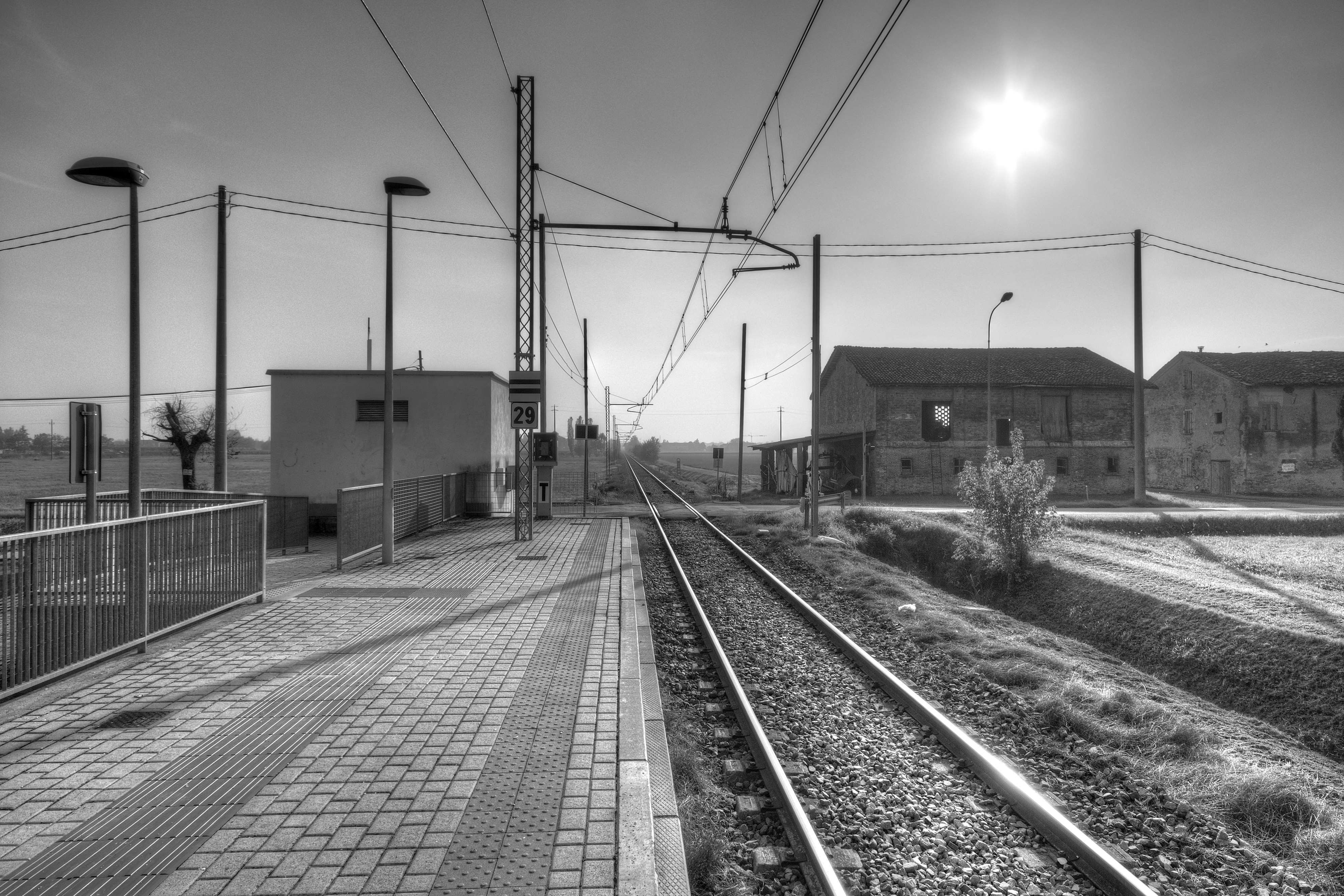 Train Station - Pratofontana, Reggio Emilia, Italy